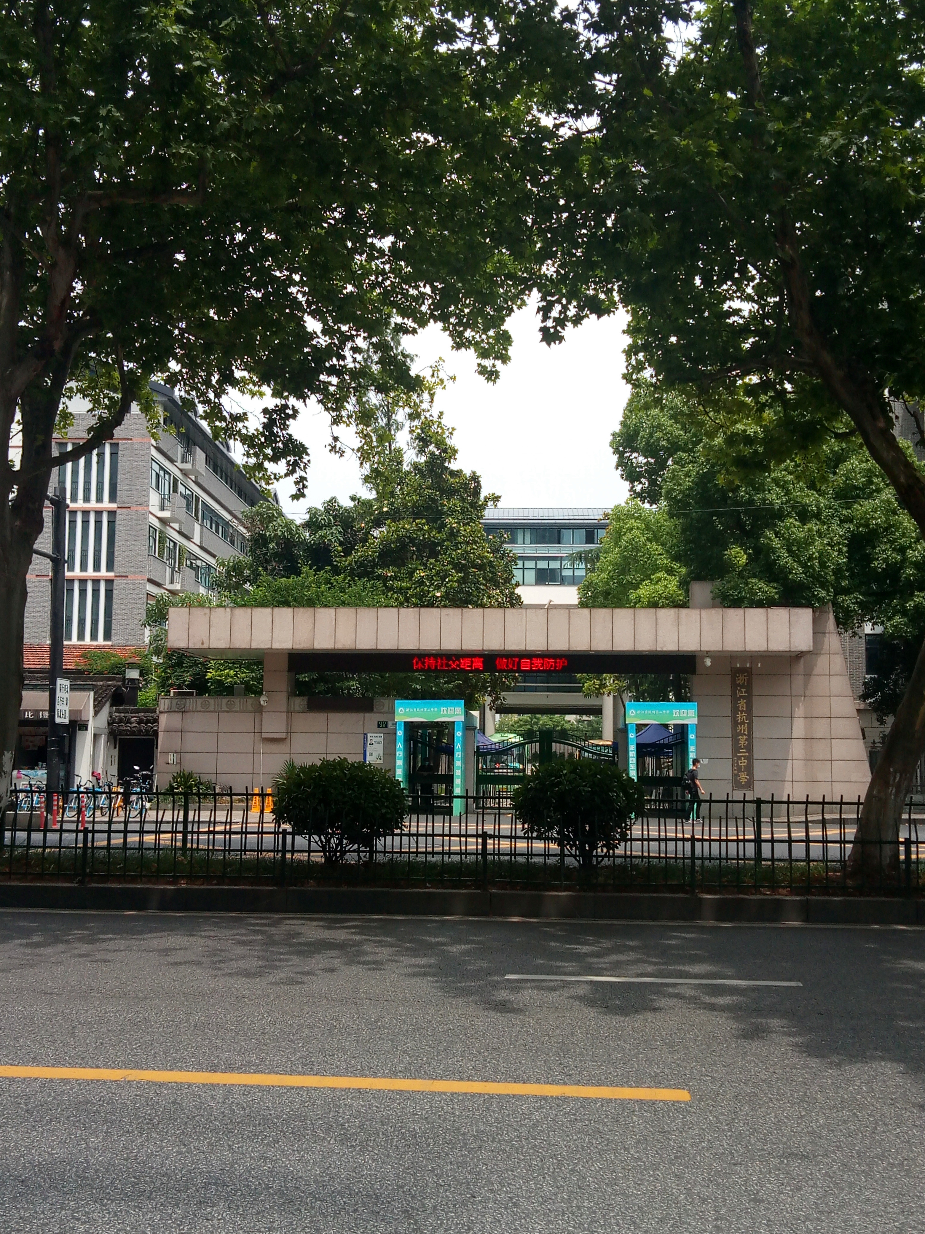 Hangzhou No. 2 High School in Jianguo Road.